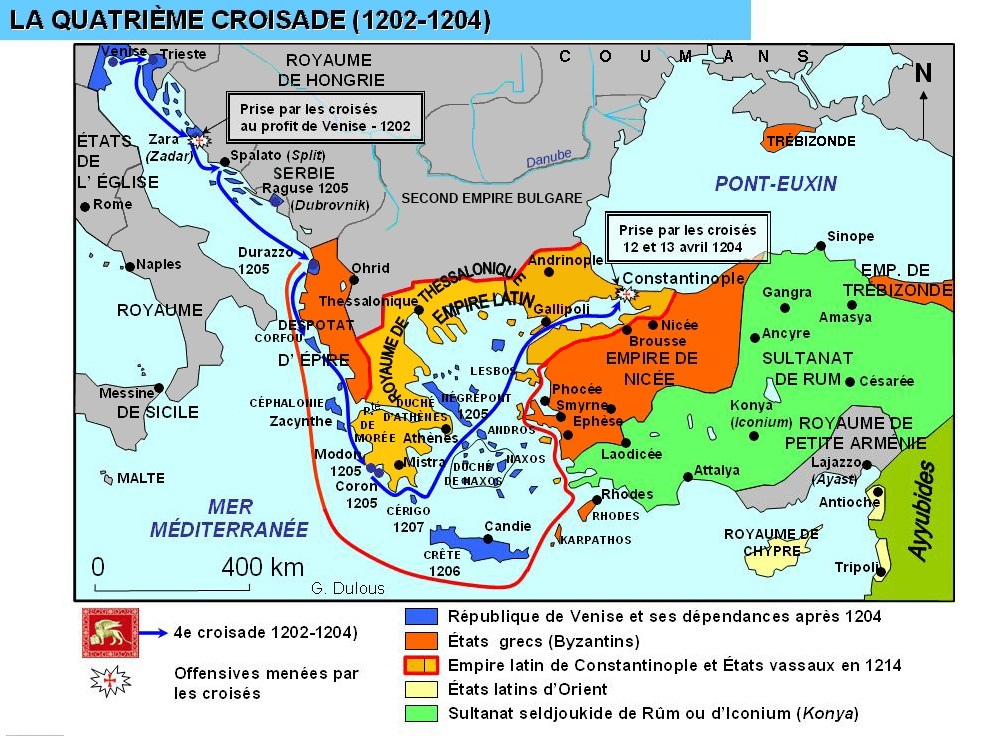 Fourth crusade